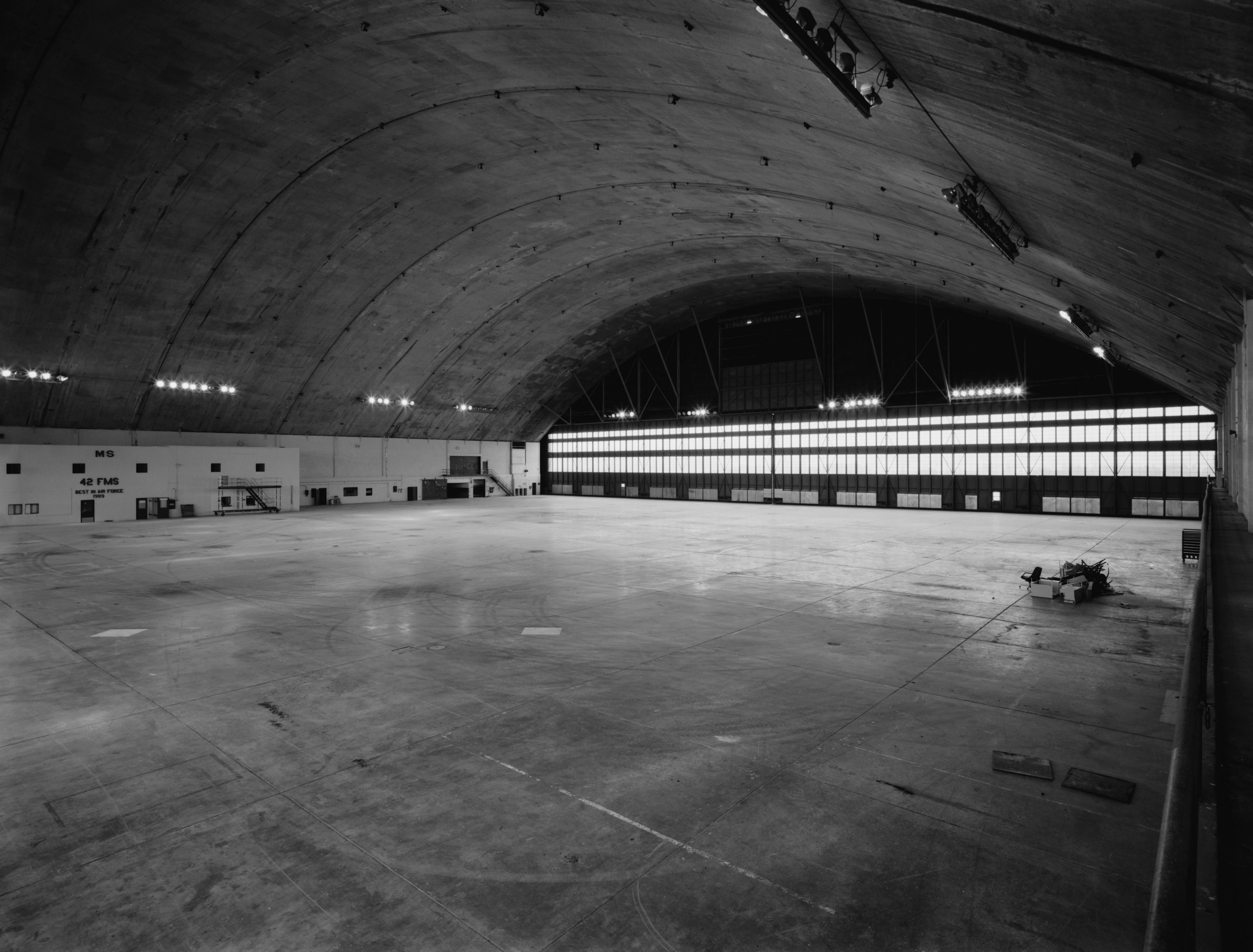 Loring Air Force Base, Arch Hangar, East of Arizona Road near southern end of runway, Limestone vicinity, Aroostook County, ME. Interior view of Building 8250 (Arch Hangar), looking northwest.